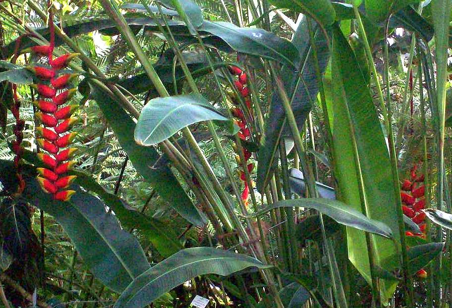 Heliconia velutina (de: Samt-Papageienblume), Botanical Garden Heidelberg.